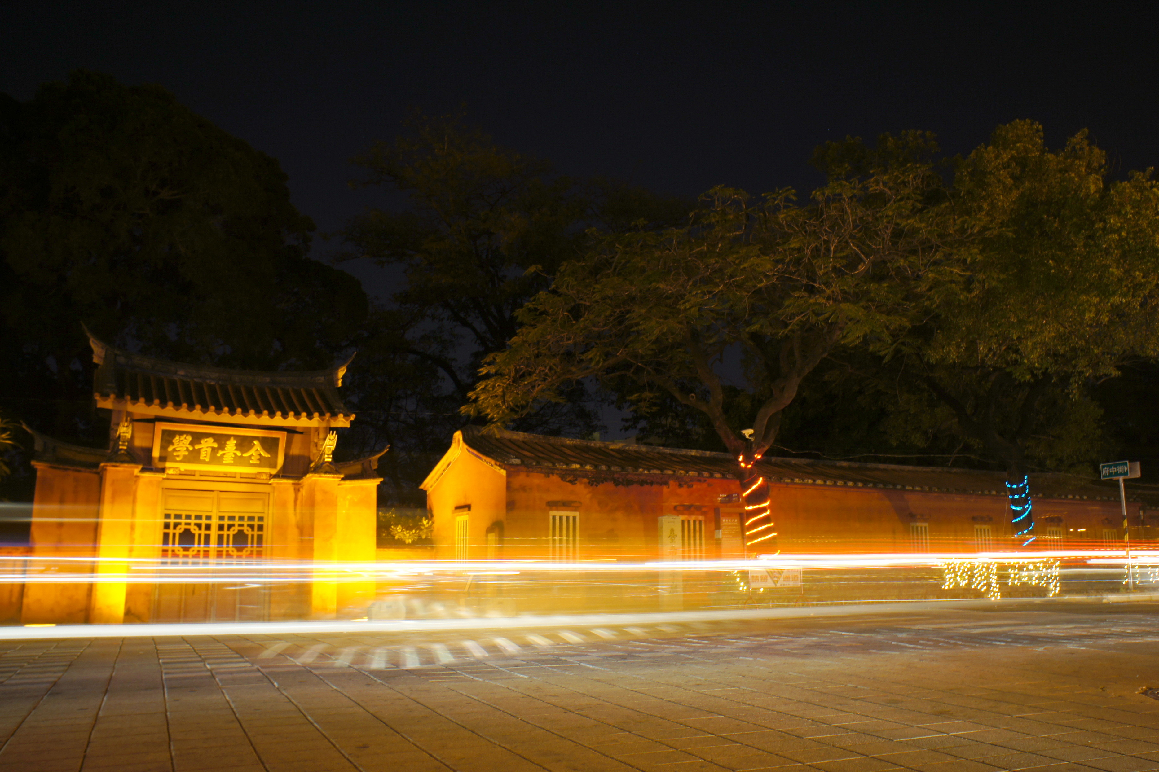 Tainan Confucian Temple, Tainan, Taiwan. Nanmen Road is at the front.